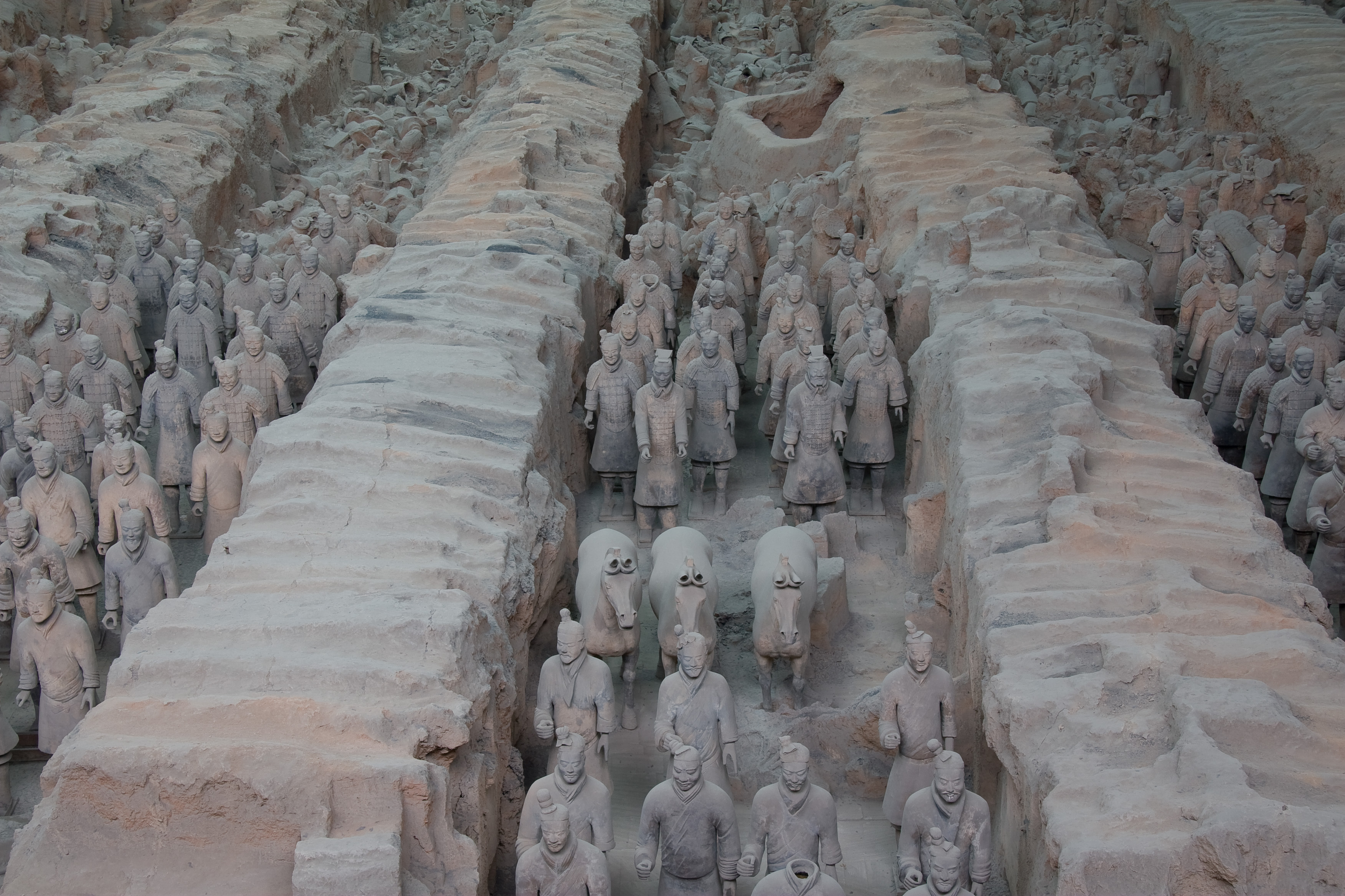 Terracotta Army Pit 1 - in Xi'an, China